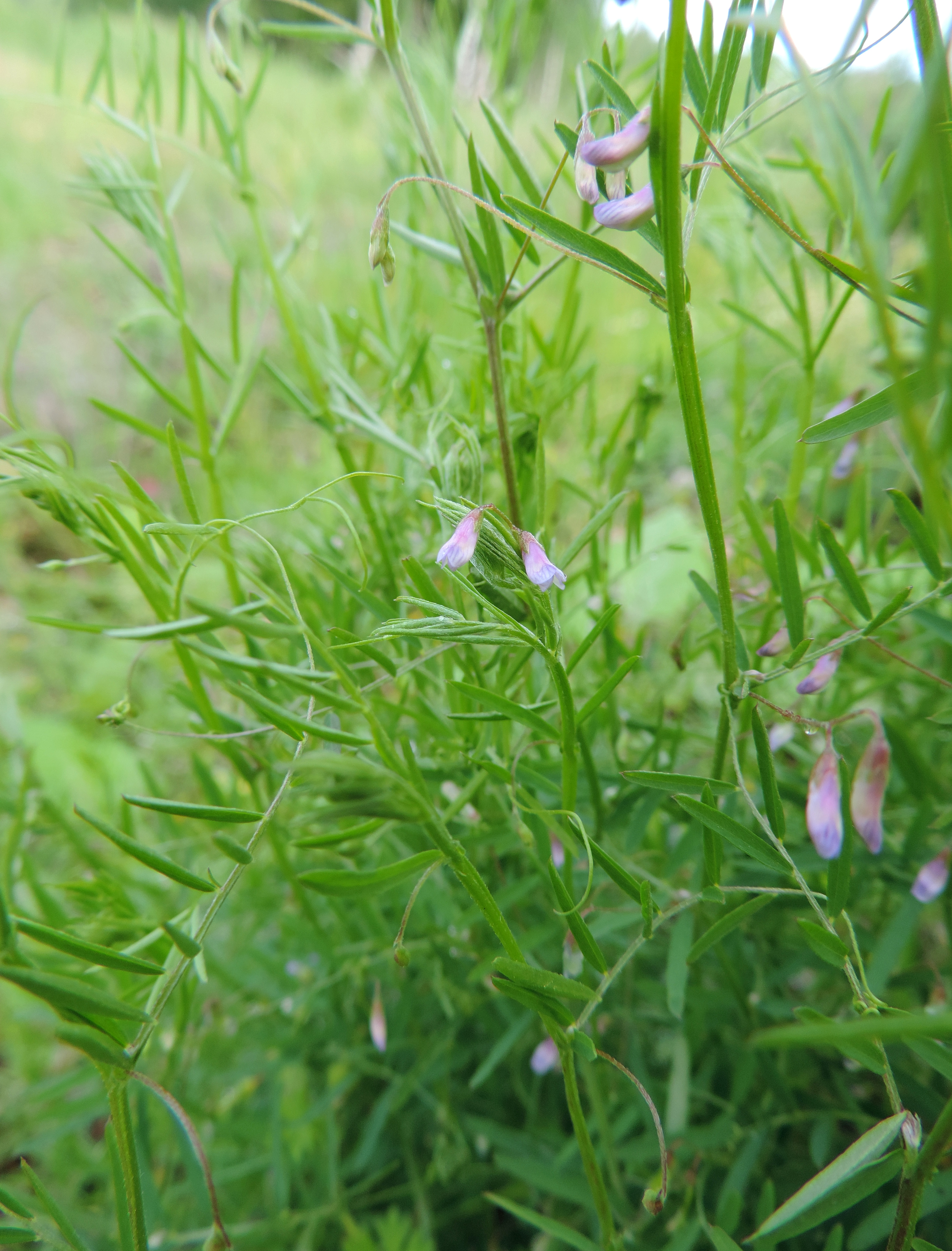 Vicia tetrasperma, near Kołobrzeg (N Poland)